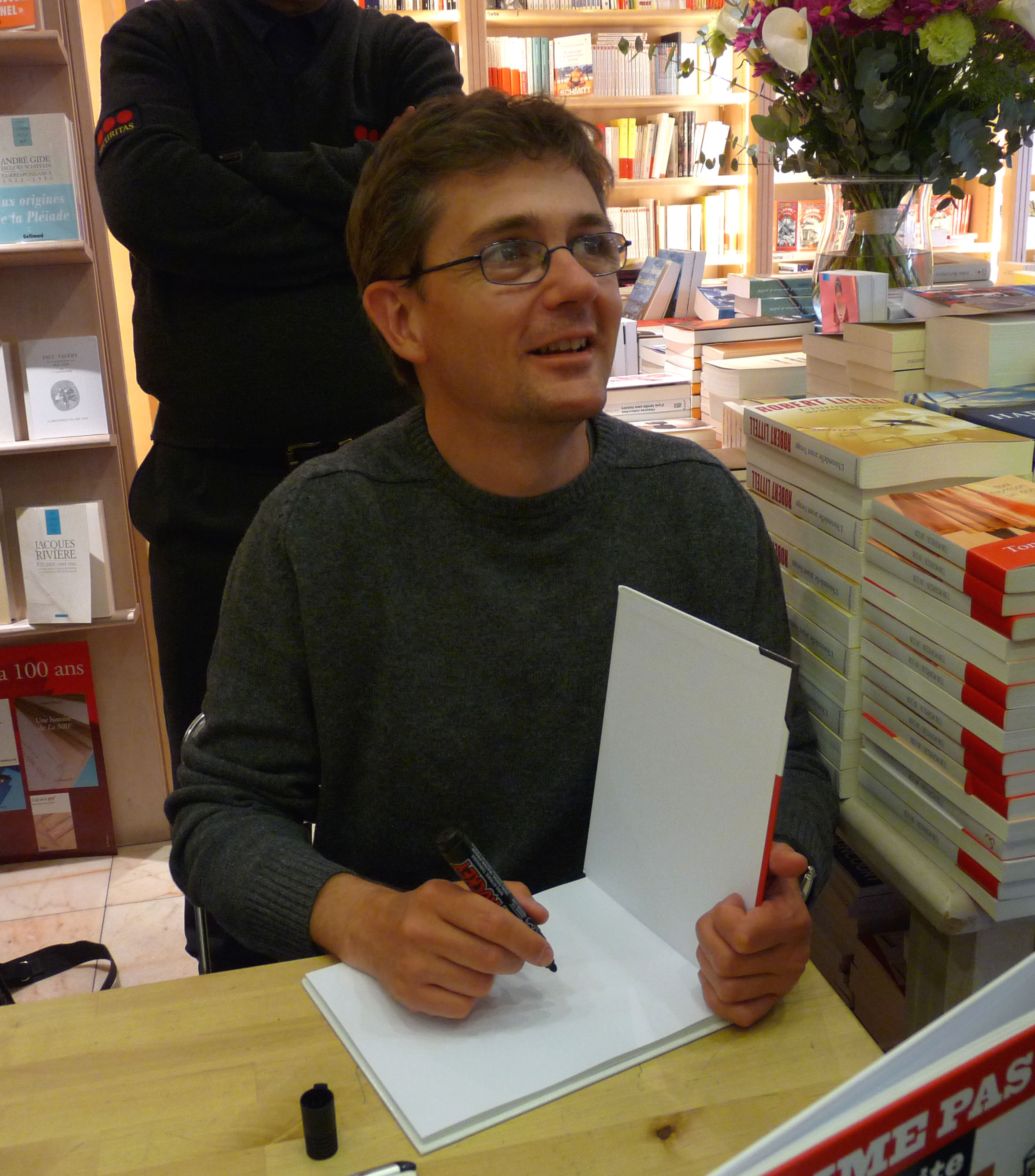 French illustrator Charb